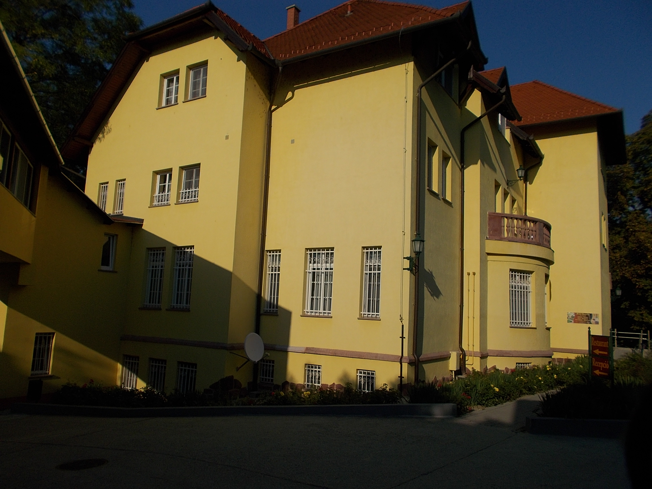 Art Nouveau mansion remodelled to four star hotel. Listed ID 3302. Built in 1926 by Pál Vágó. First owner Imre Fried (local magnat). The Orchid corridor,-at second floor,-connect the Mansion with Ballroom of the Liliom Wing. - Malom Street, Simontornya, Tolna County, Hungary.